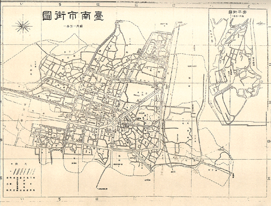 Map of Tainan